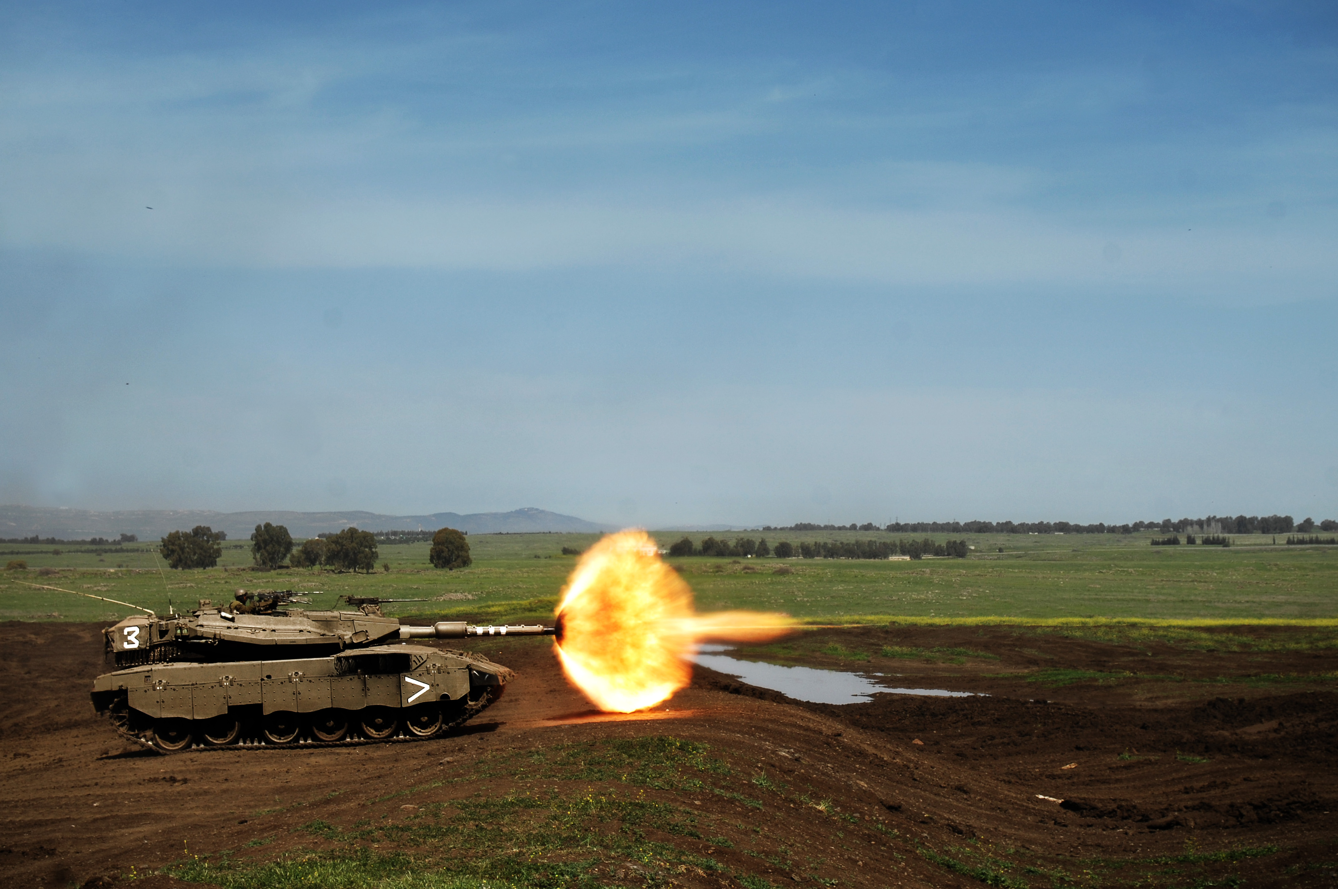 A tank during a training day held in the Golan Heights for the 188th Armored Brigade. The goal of the day was to test the level of the brigade's combat fitness. Photography by Neil Cohen, IDF Spokesperson's Film Unit.